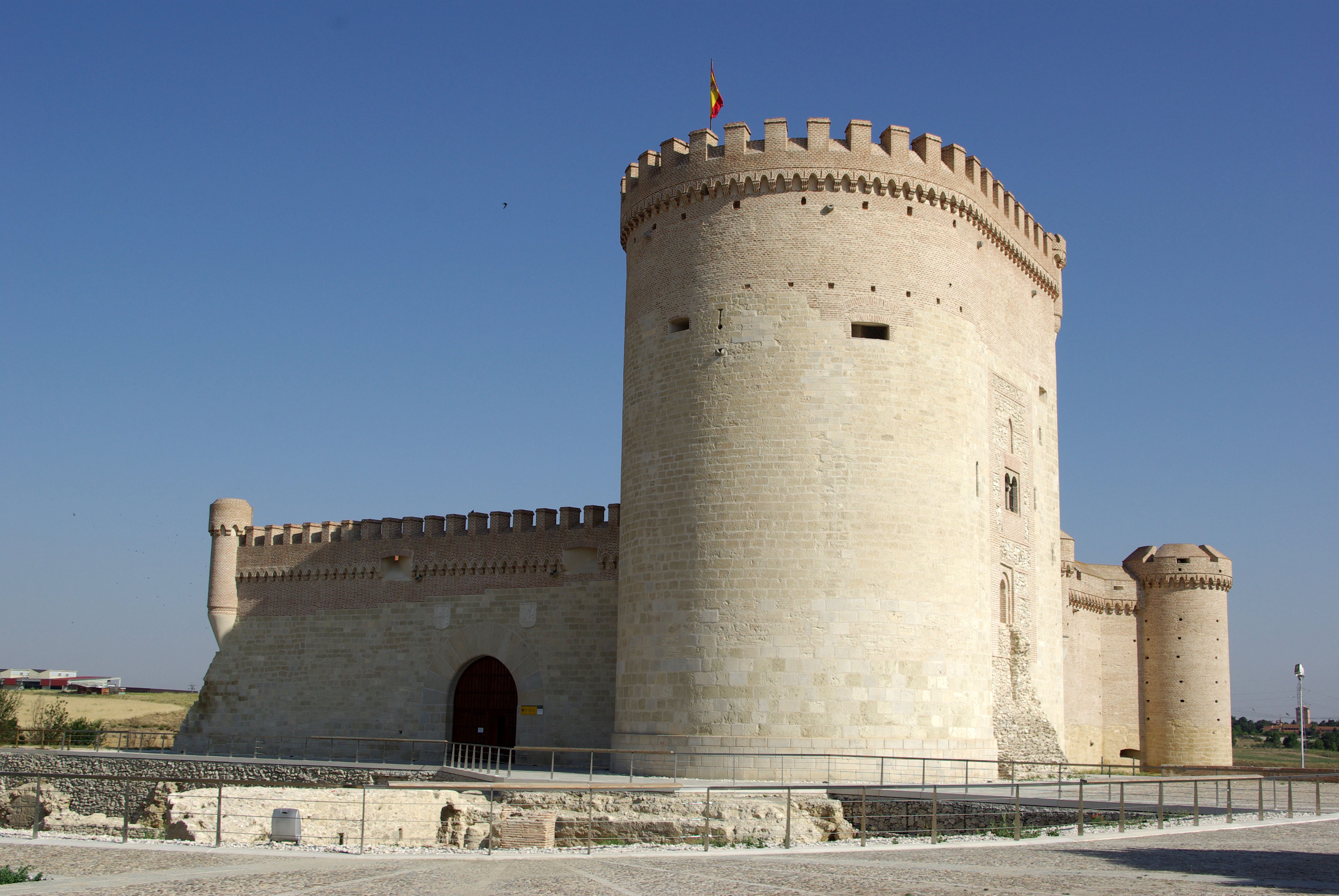 Castle of Arévalo (Ávila, Spain). Keep and main entrance.